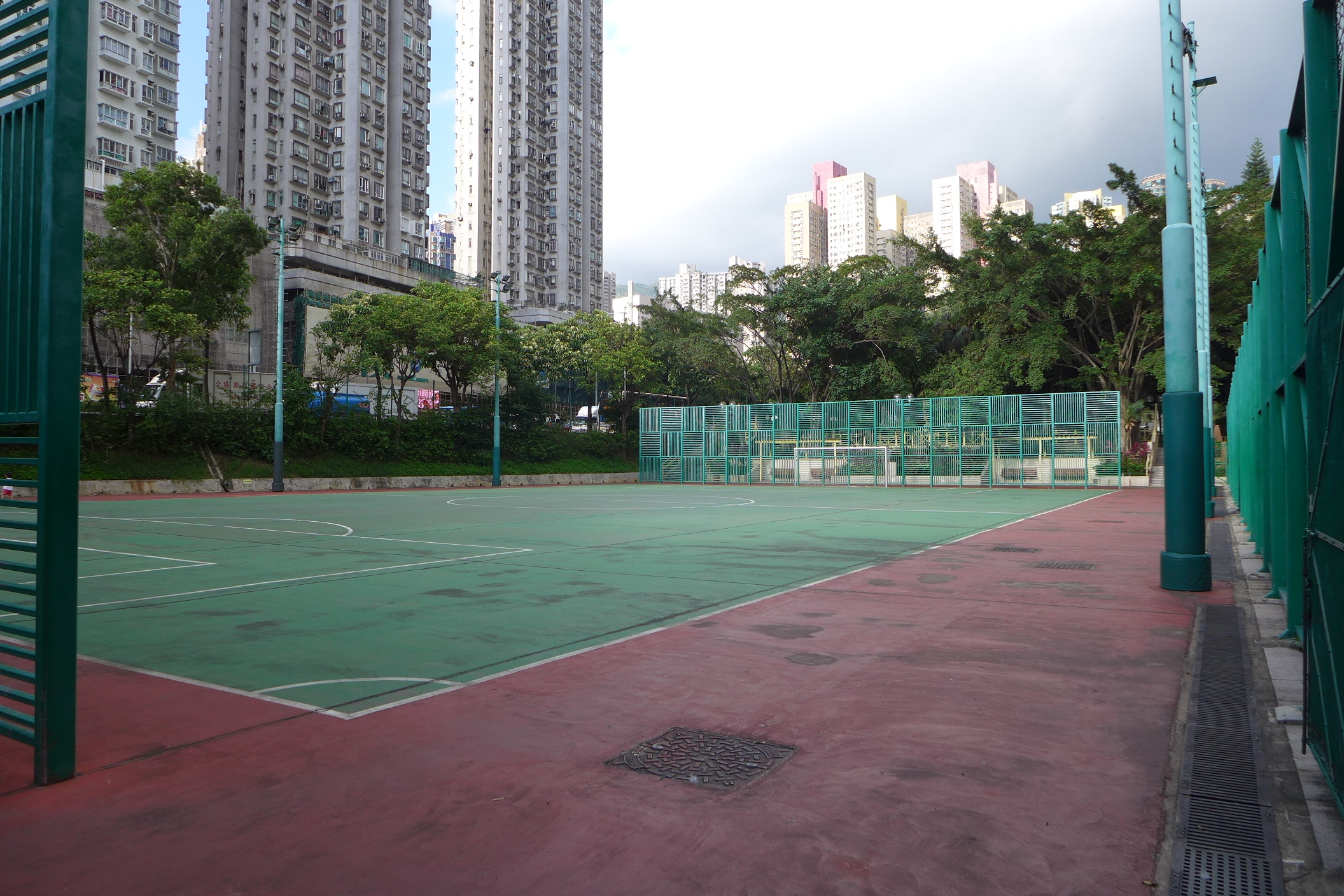 Muk Lun Street Playground Football Court